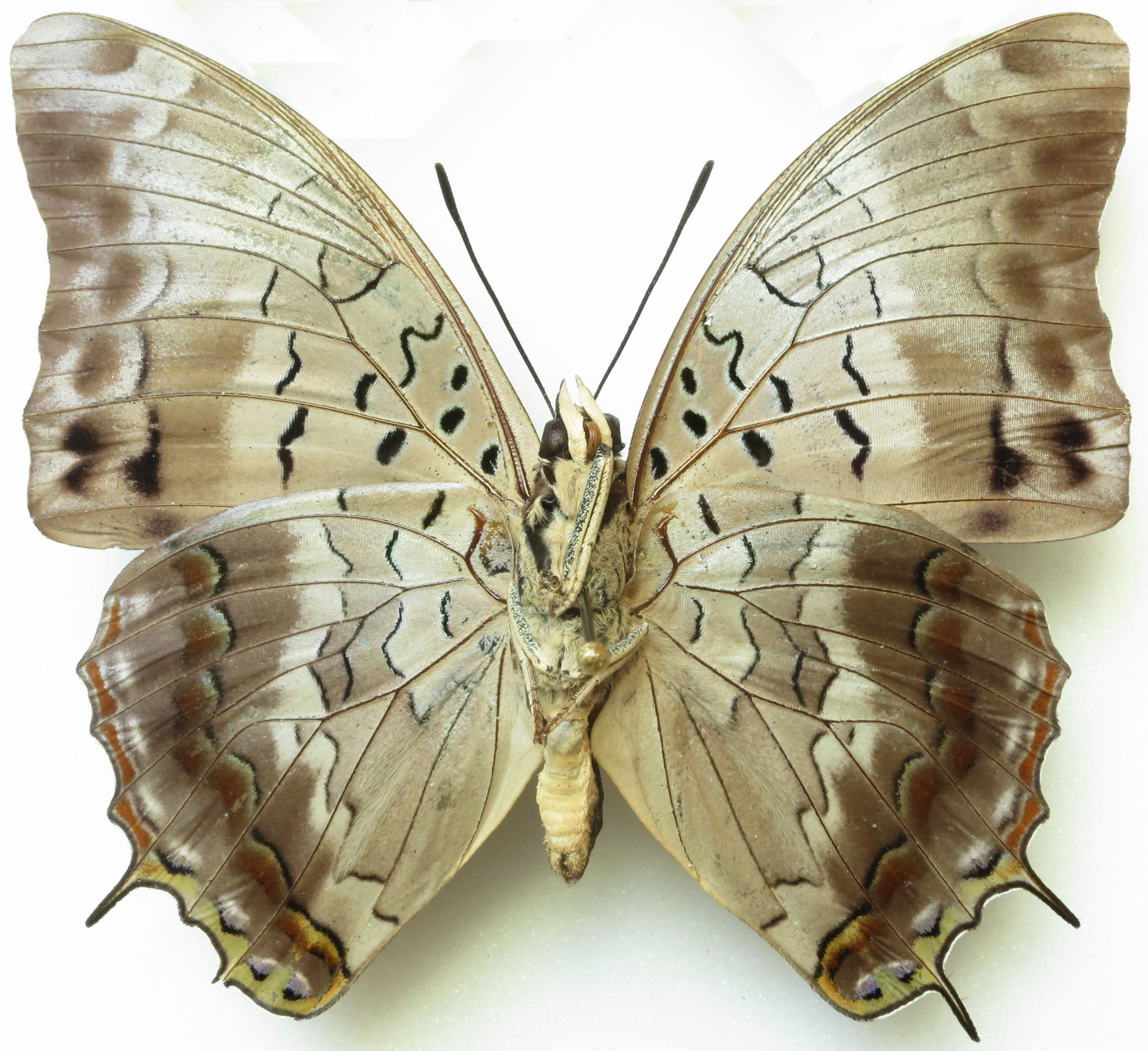 Charaxes catachrous female from CAR